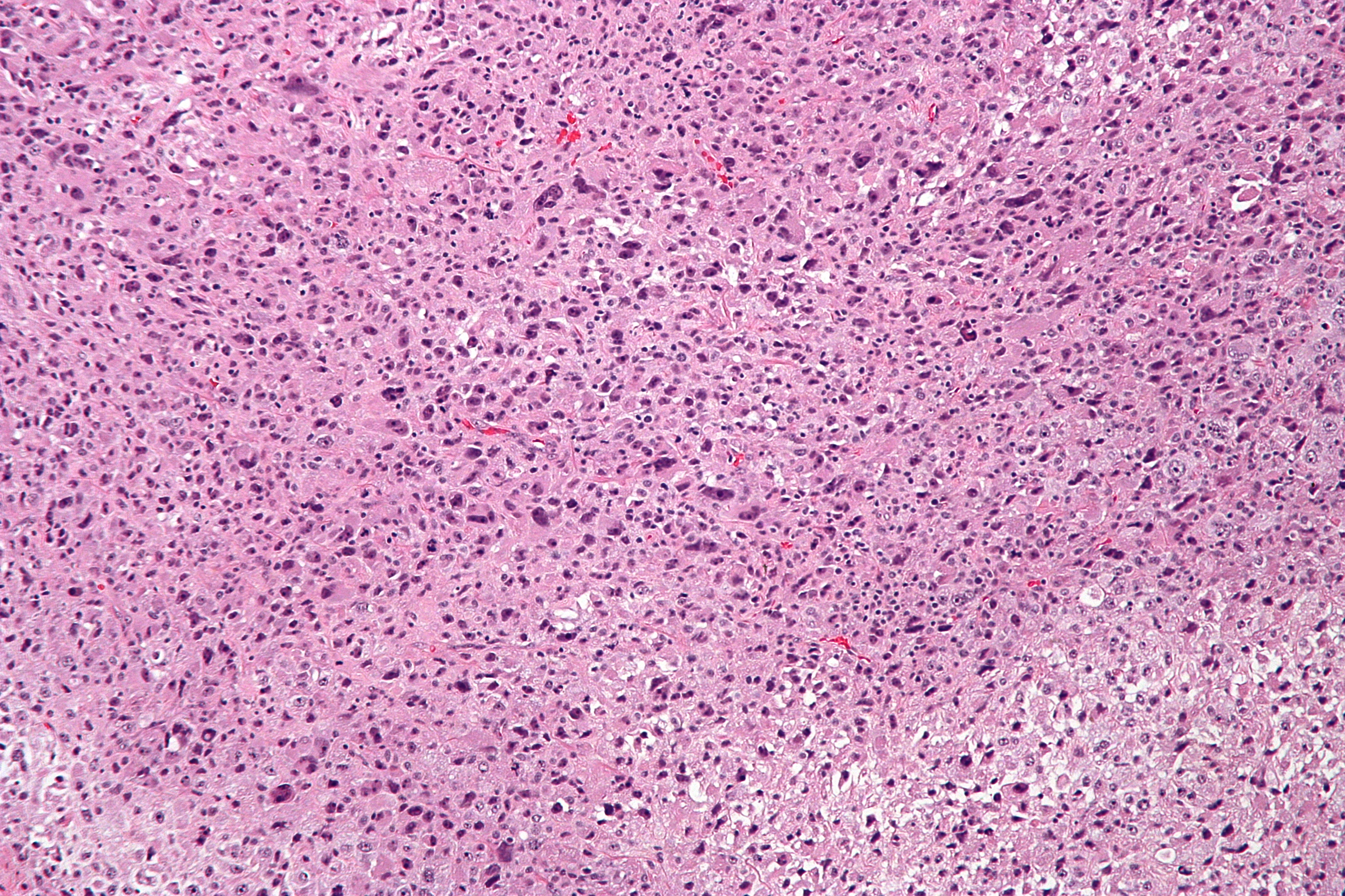 Intermediate magnification micrograph of a pleomorphic undifferentiated sarcoma, also undifferentiated pleomorphic sarcoma, and previously known as malignant fibrous histiocytoma, abbreviated MFH. H&E stain. Related images Intermed mag. Very high mag.